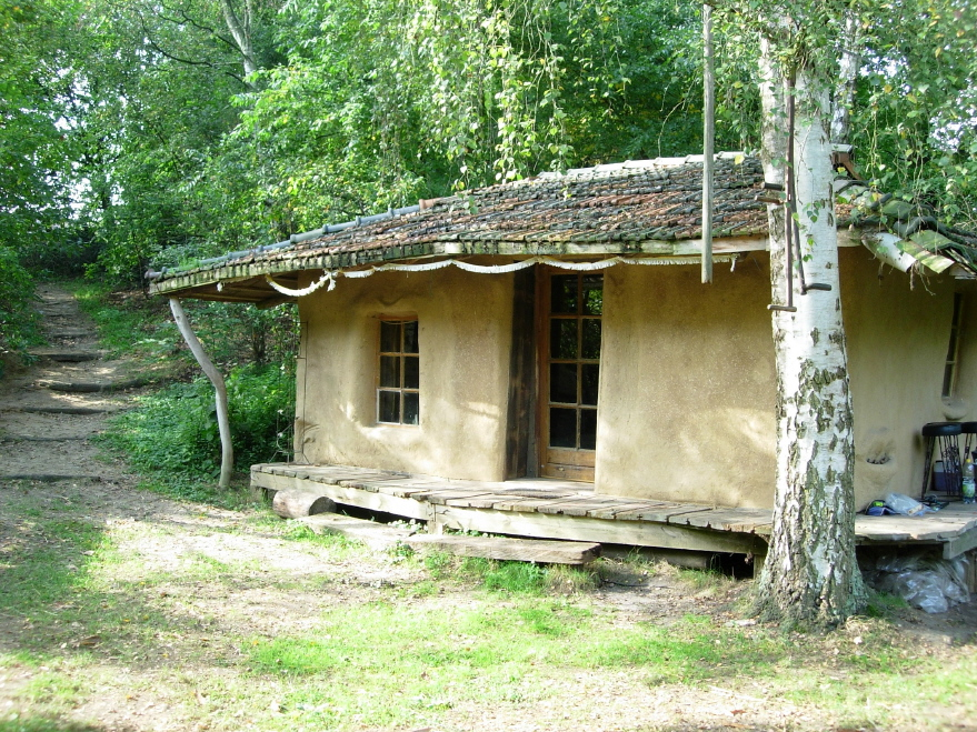 Straw bale building in Holland